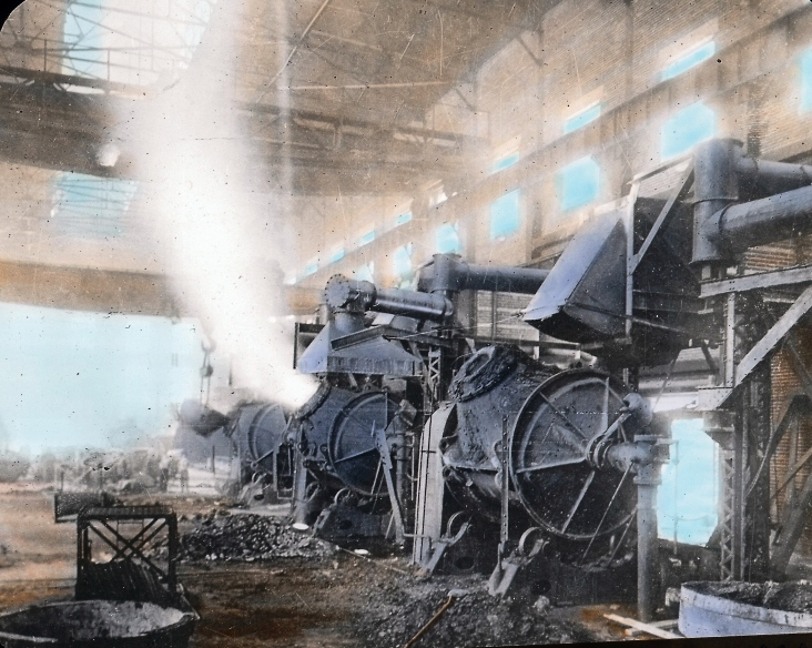 Photograph, glass lantern slide, Copper converters, nickel industry, Sudbury, ON, about 1920, Anonymous, Silver salts and transparent ink on glass - Gelatin dry plate process - 8 x 10 cm